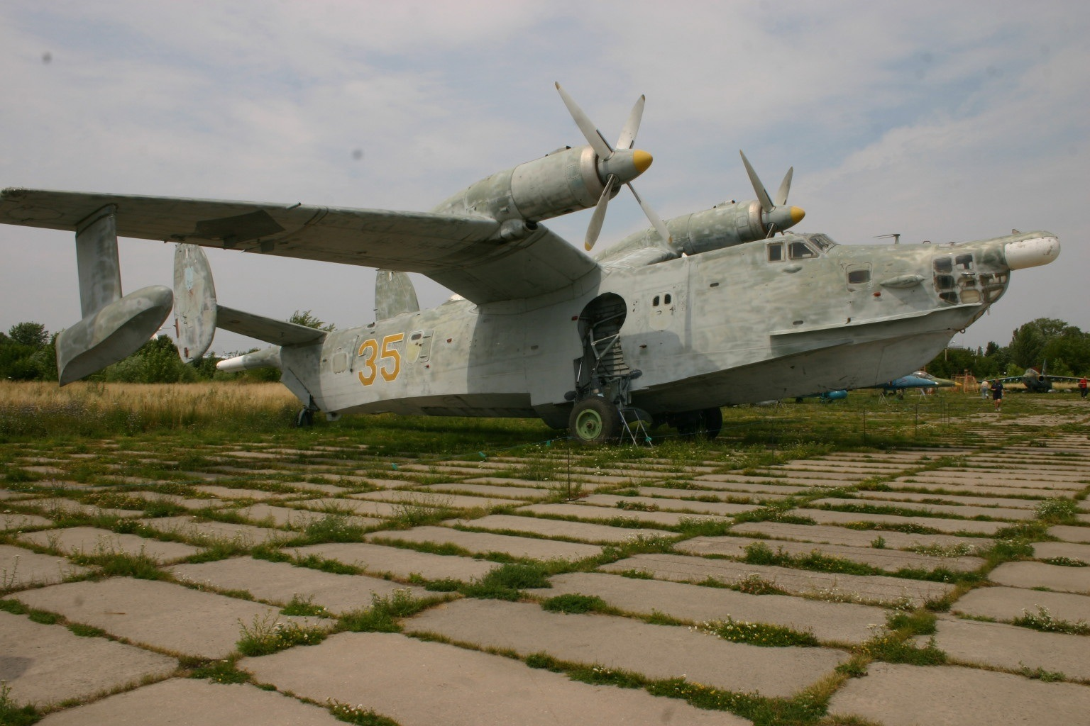 At Kiev - Zhulhany Museum